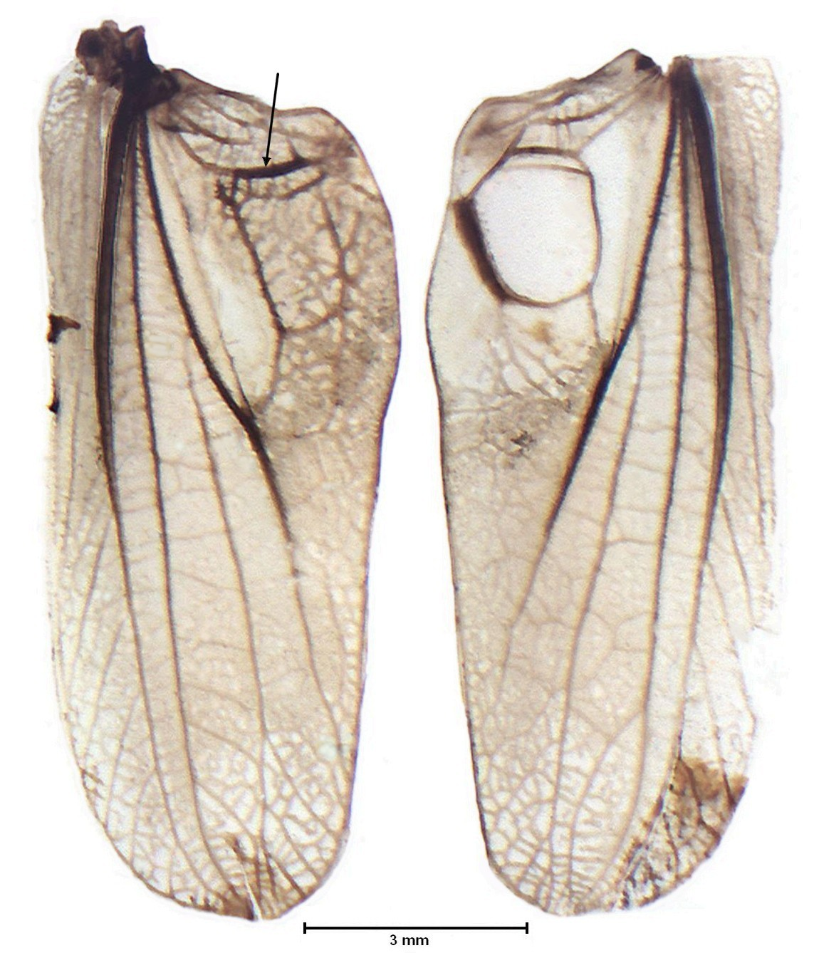 Left and right forewing of an adult male. The arrow indicates the active file